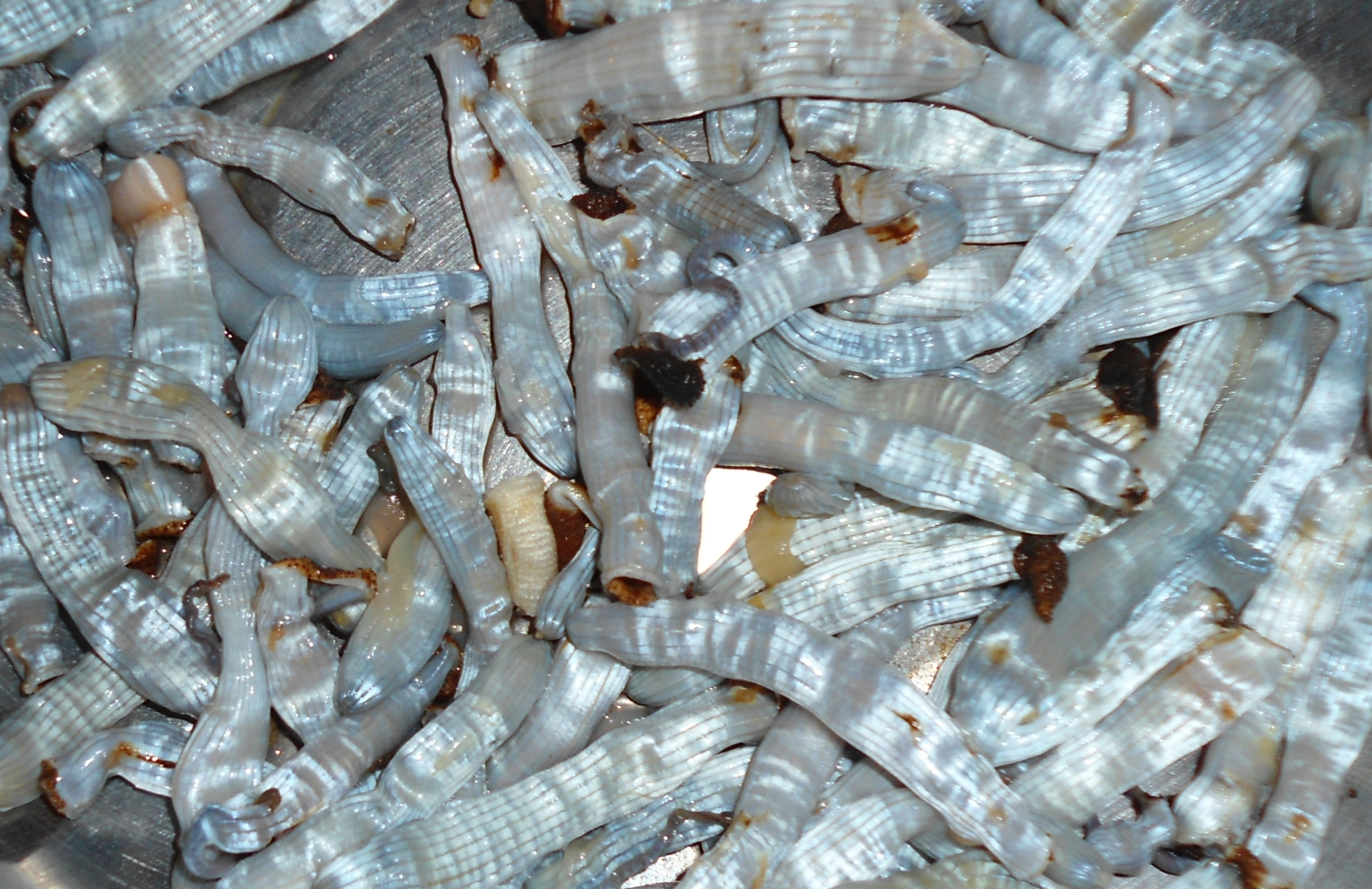 Unidentified marine animal in a market in Haikou City, Hainan Province, China.